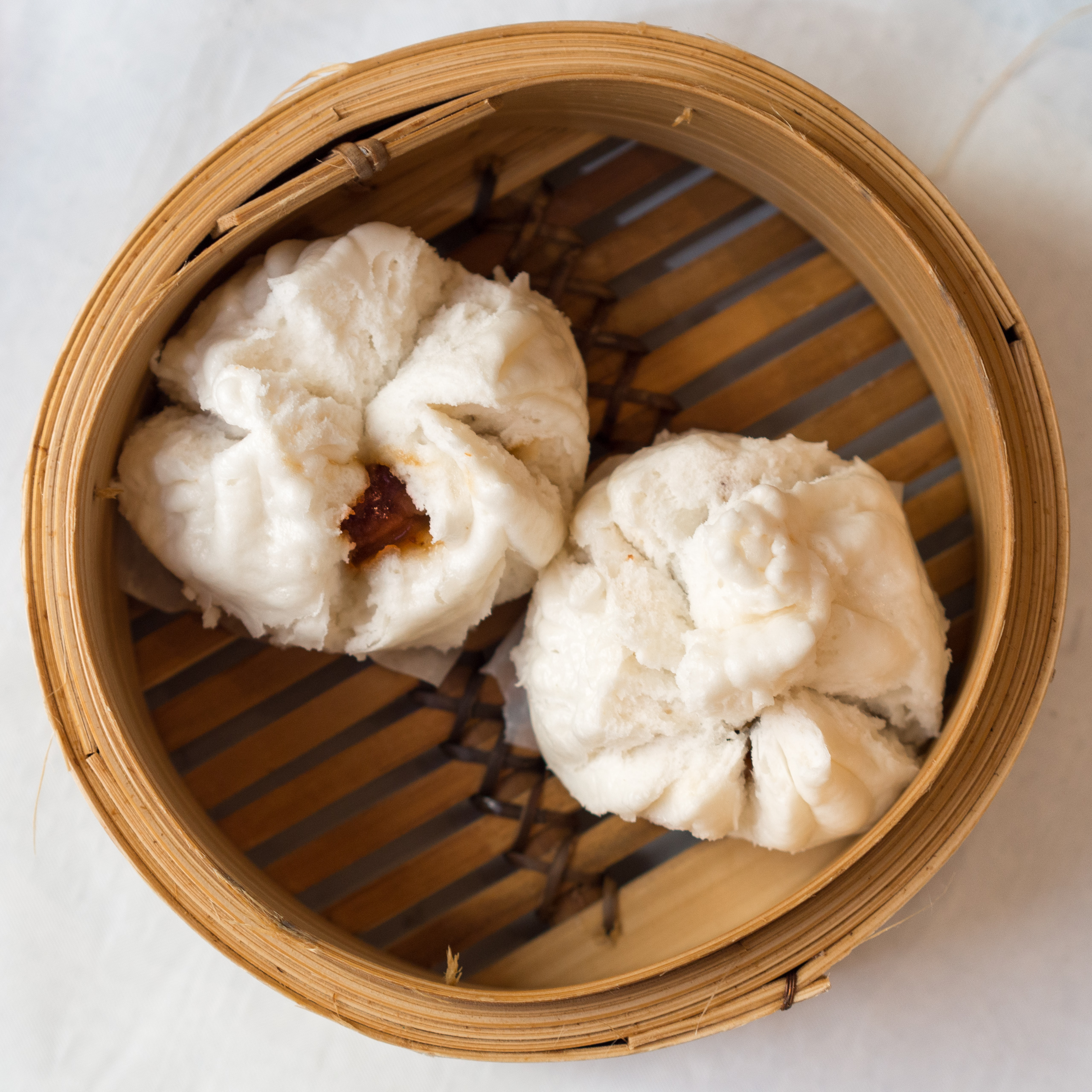 Char siu bao ( 叉烧包 ) at a Cantonese restaurant in The Hague, Netherlands.